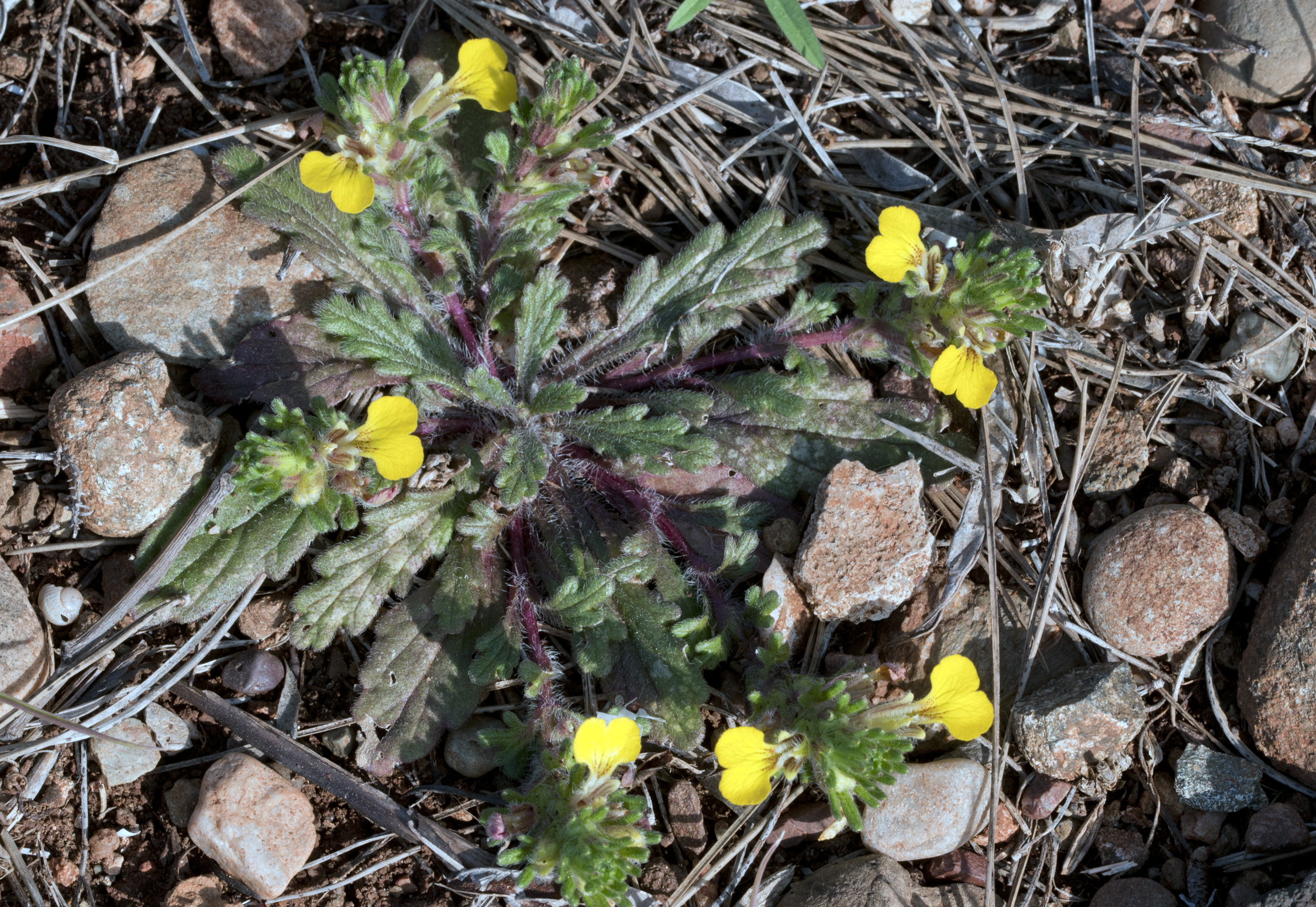 Ajuga chamaepitys (probably ssp. palestina).